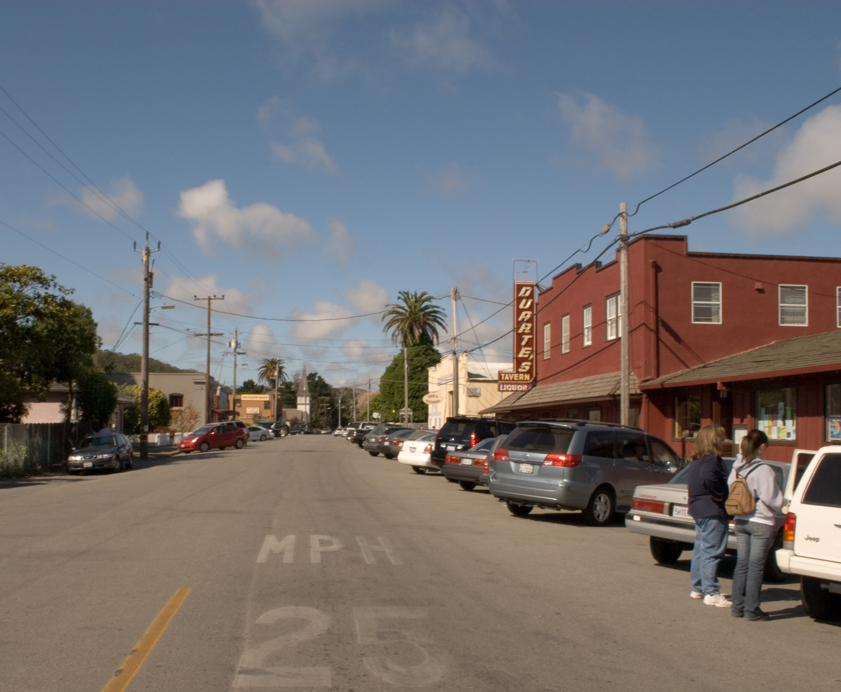 View looking North on Stage Road in Pescadero, Duarte's Restaurant on right